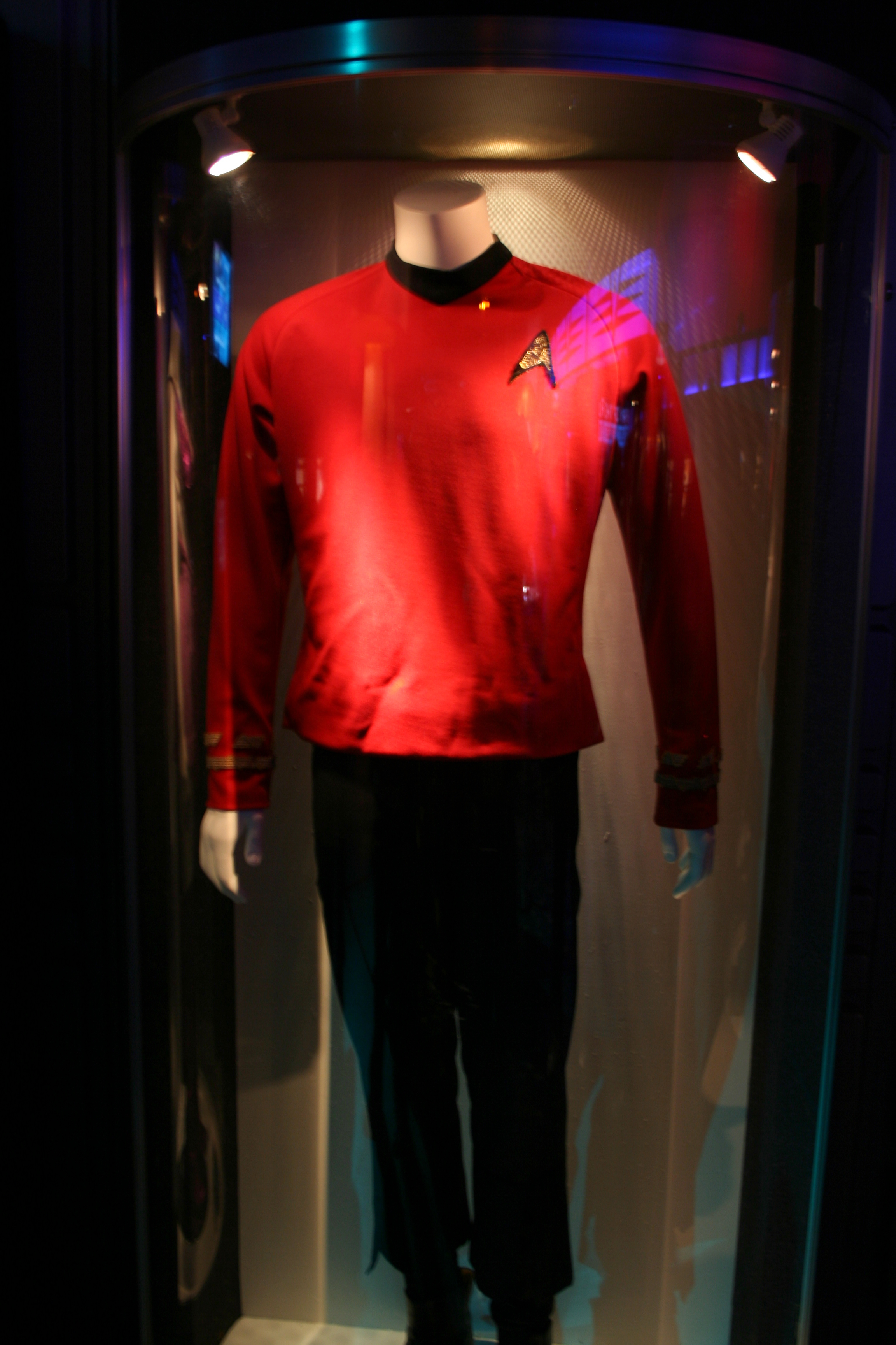 Red shirt uniform from Star Trek: The Original Series